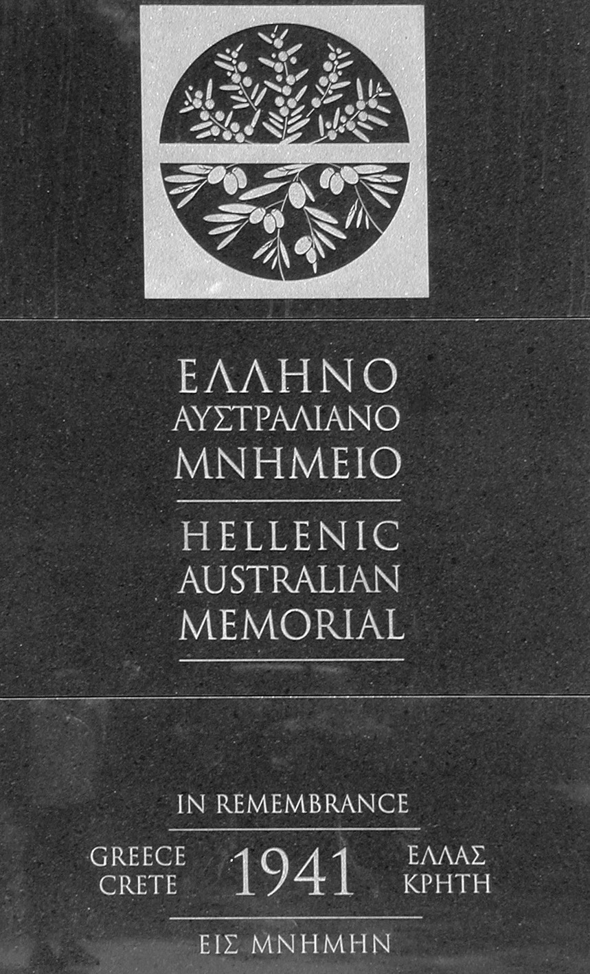 Memorial for Greek and Australian soldiers fallen in the Battle of Crete 1941 (Rethymno, Crete, Greece)